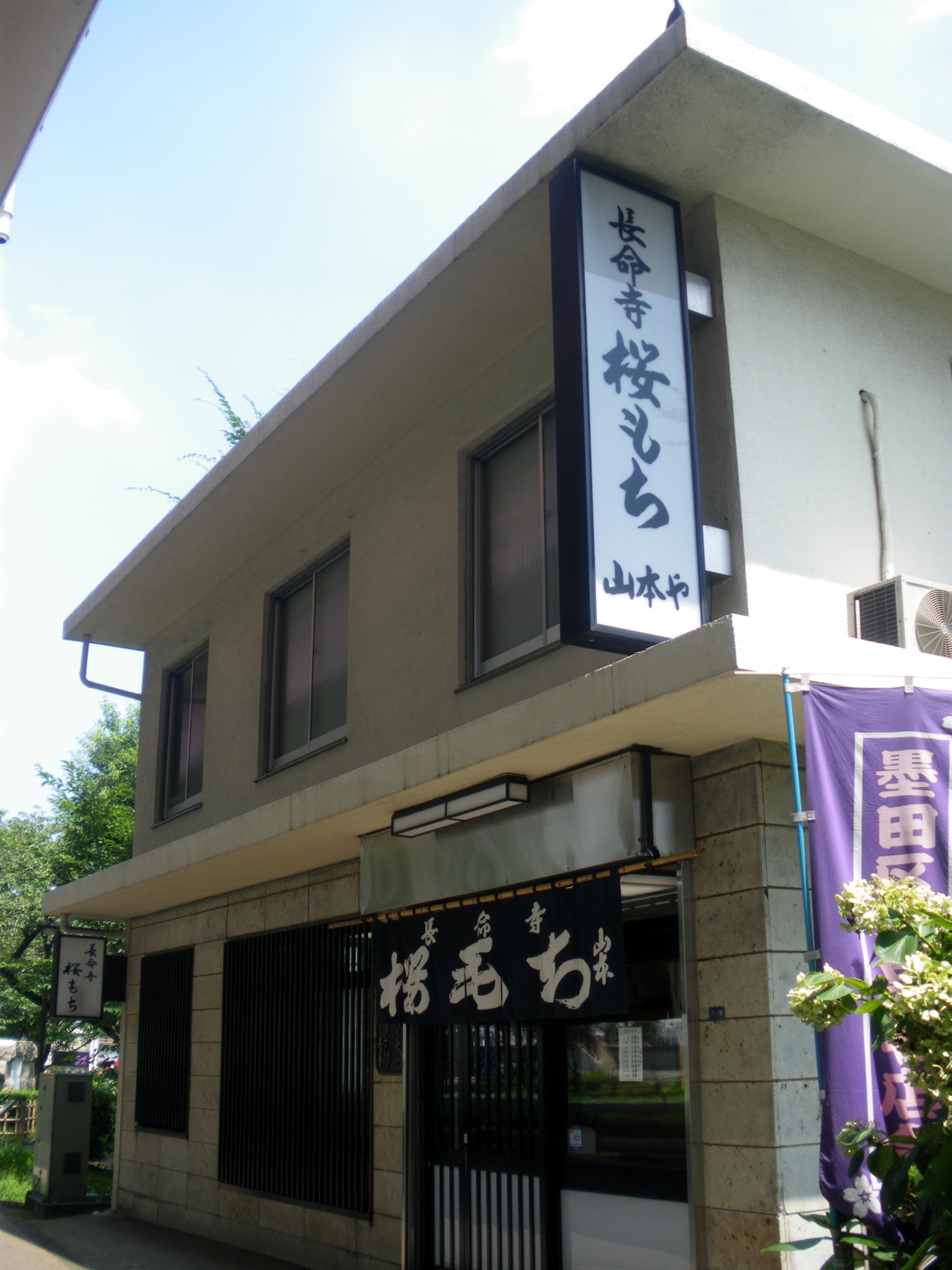 Yamamotoya (the shop of Chomeiji Sakuramochi)(Mukojima,Sumida,Tokyo)